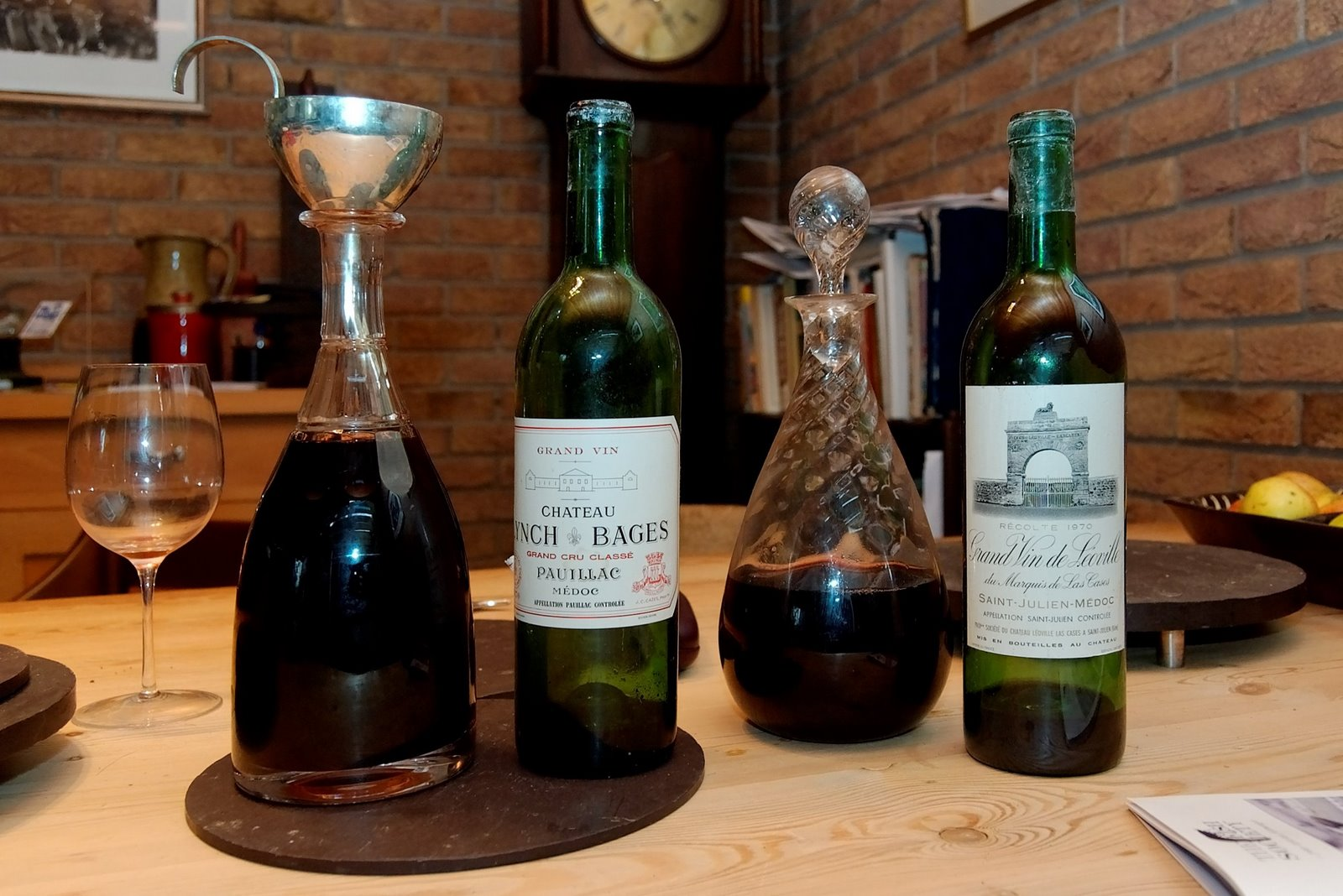 French wine from the Medoc left bank of Bordeaux. Also an excellent picture of a wine strainer (on the left decanter) that filters out sediment (which can be seen in the bottles)